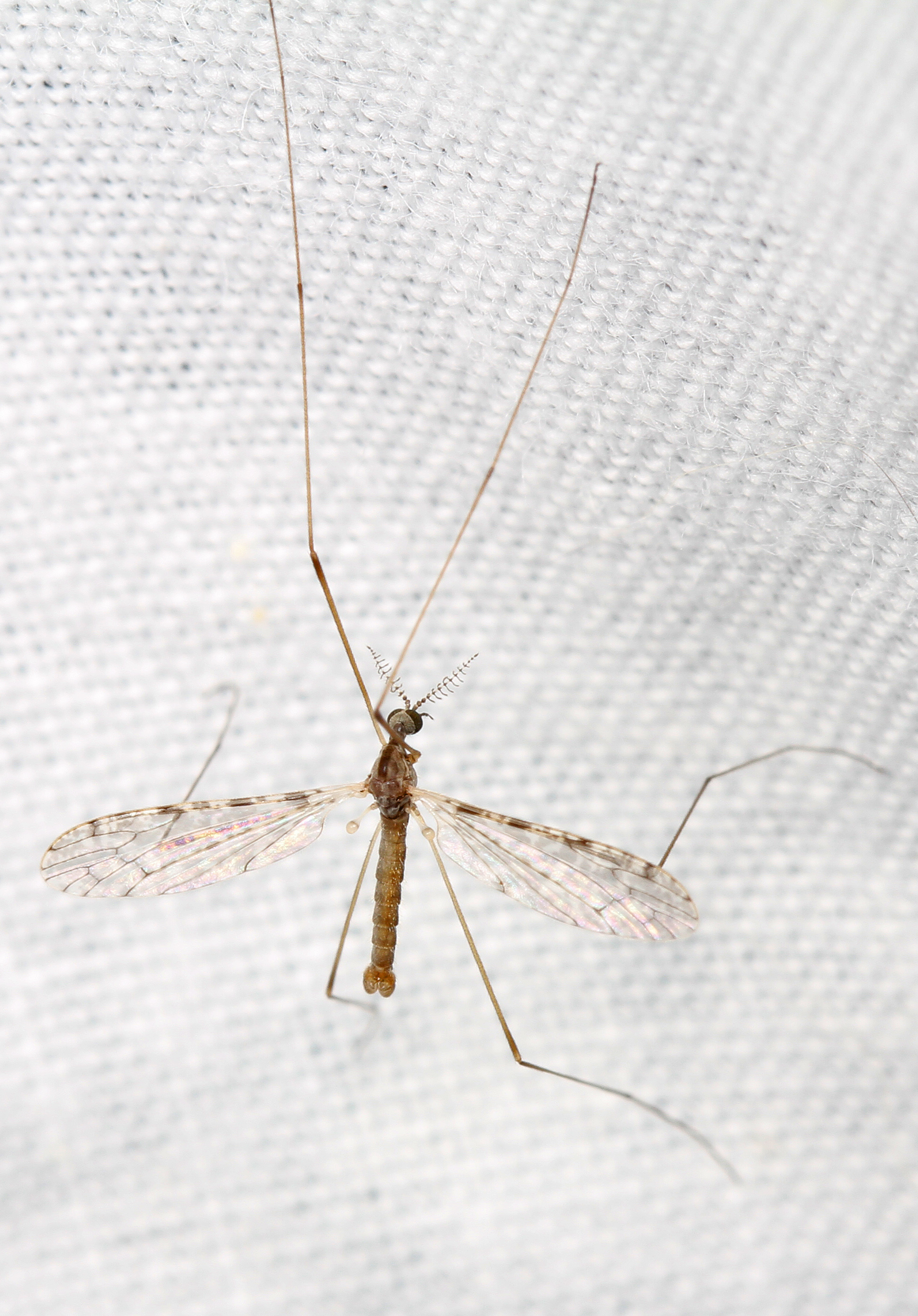 Crane Fly - Limonia maculata, Woodbridge, Virginia.